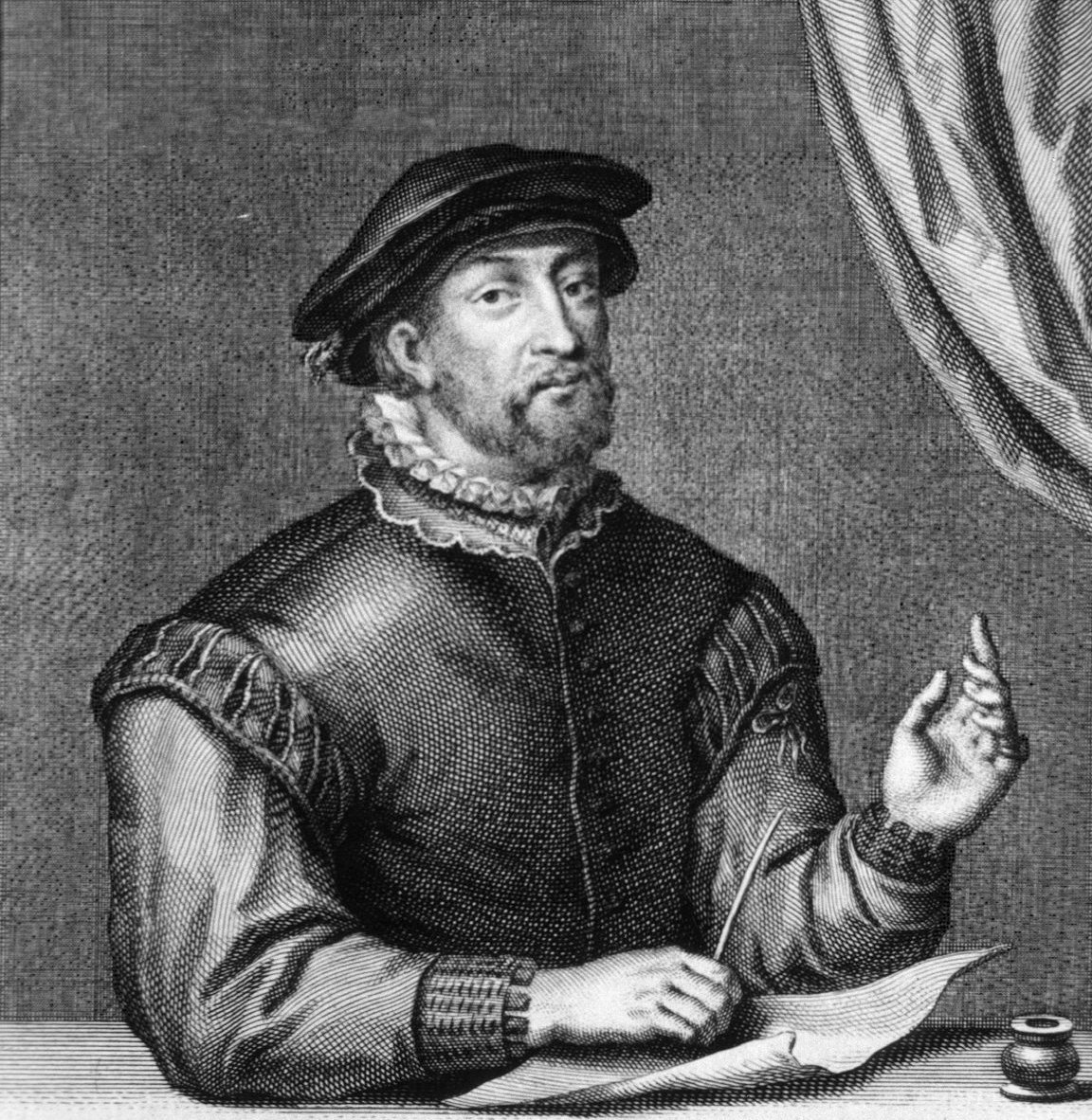 Engraving of the sixteenth-century humanist Petrus Lotichius Secundus